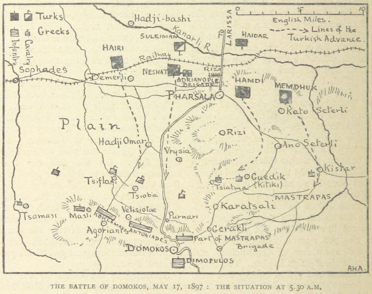 A map of the positions at 5:20 am during the Battle of Domokos